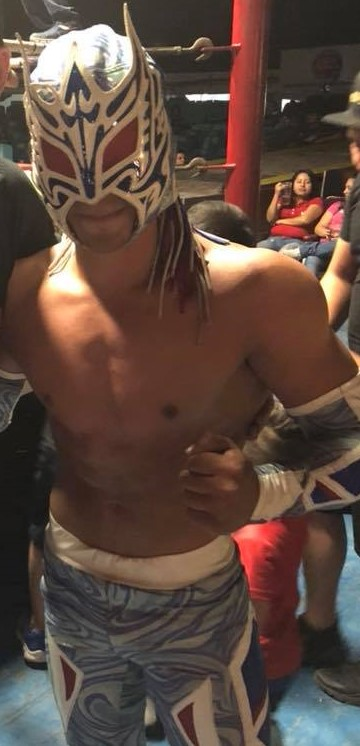 The wrestler Komander in Monterrey, Mexico in 2018.